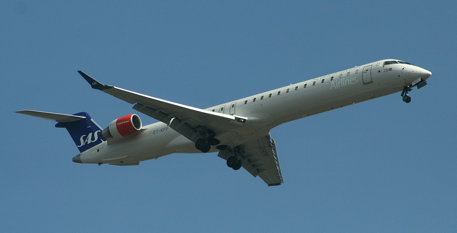 SAS Bombardier CRJ900 (OY-KFF) landing Vilnius International Airport VNO